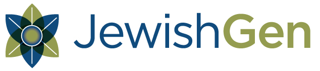 JewishGen logo